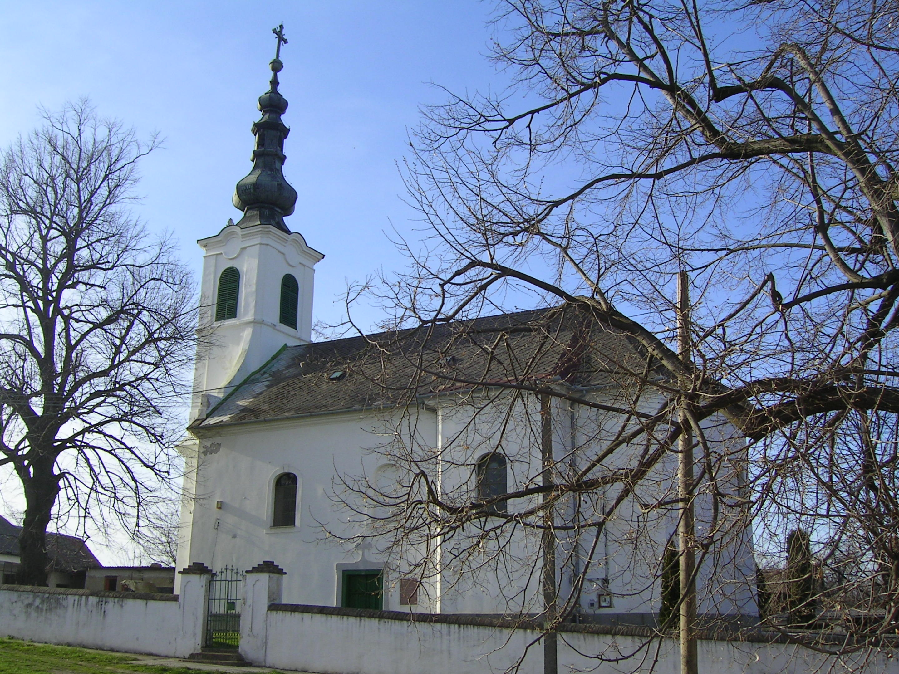 Orthodox church in Lippó, Hungary